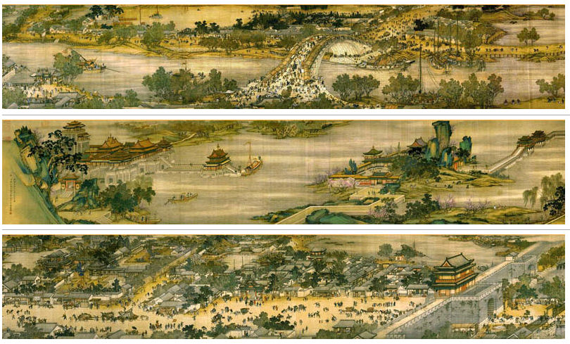 Qīng dynasty royal version Qingming-scroll (清院本清明上河圖 Qīngmíng shàng hé tú) by the Qīng dynasty royal painters Source: from the Chinese Wikipedia